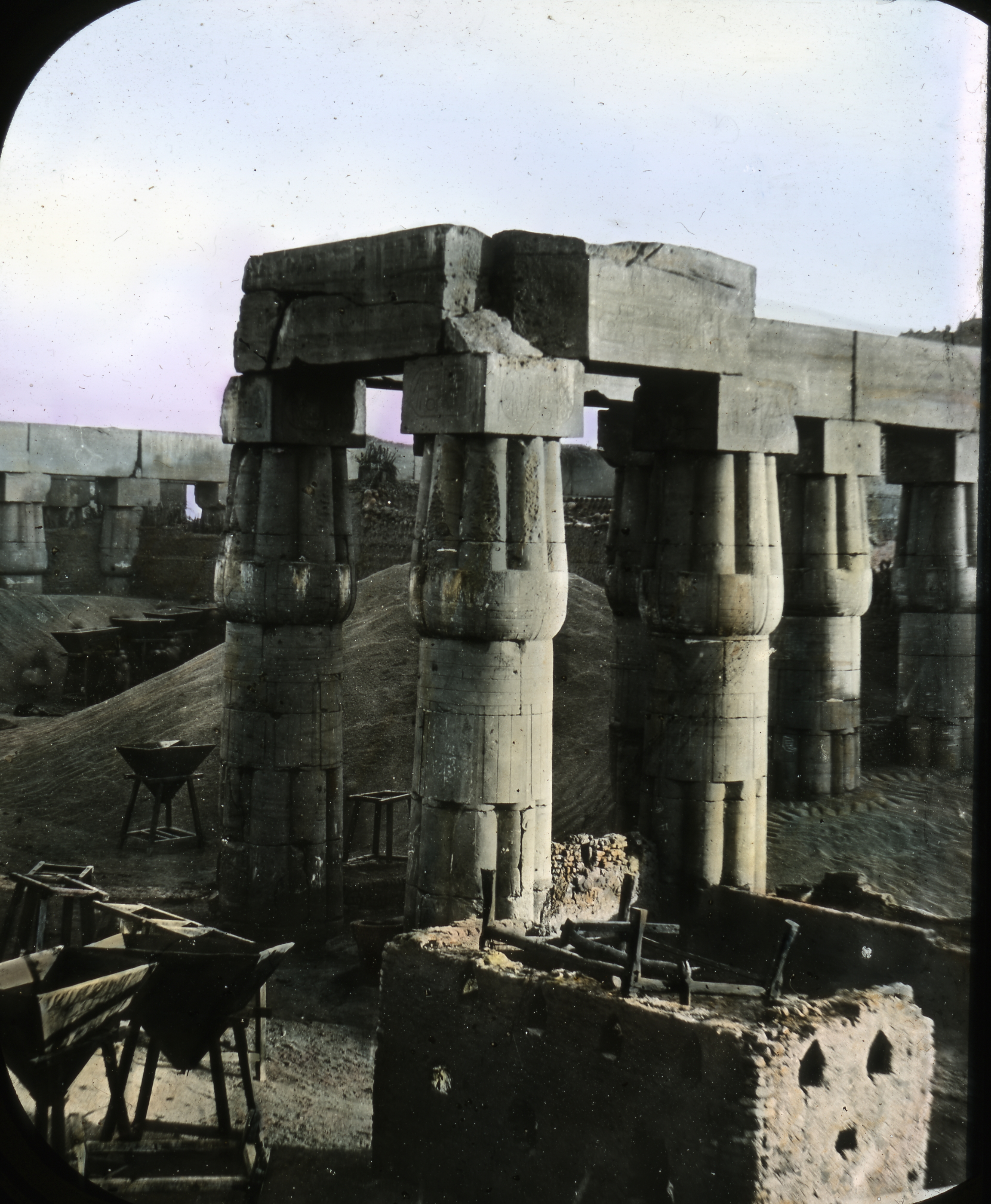 Egypt. Luxor [selected images]. View 01: Egypt - Luxor. Rear court before the excavations., n.d., T. H. McAllister, Manufacturing Optician. 49 Nassau Street, New York. Brooklyn Museum Archives (S10.08 Luxor, image 9870).